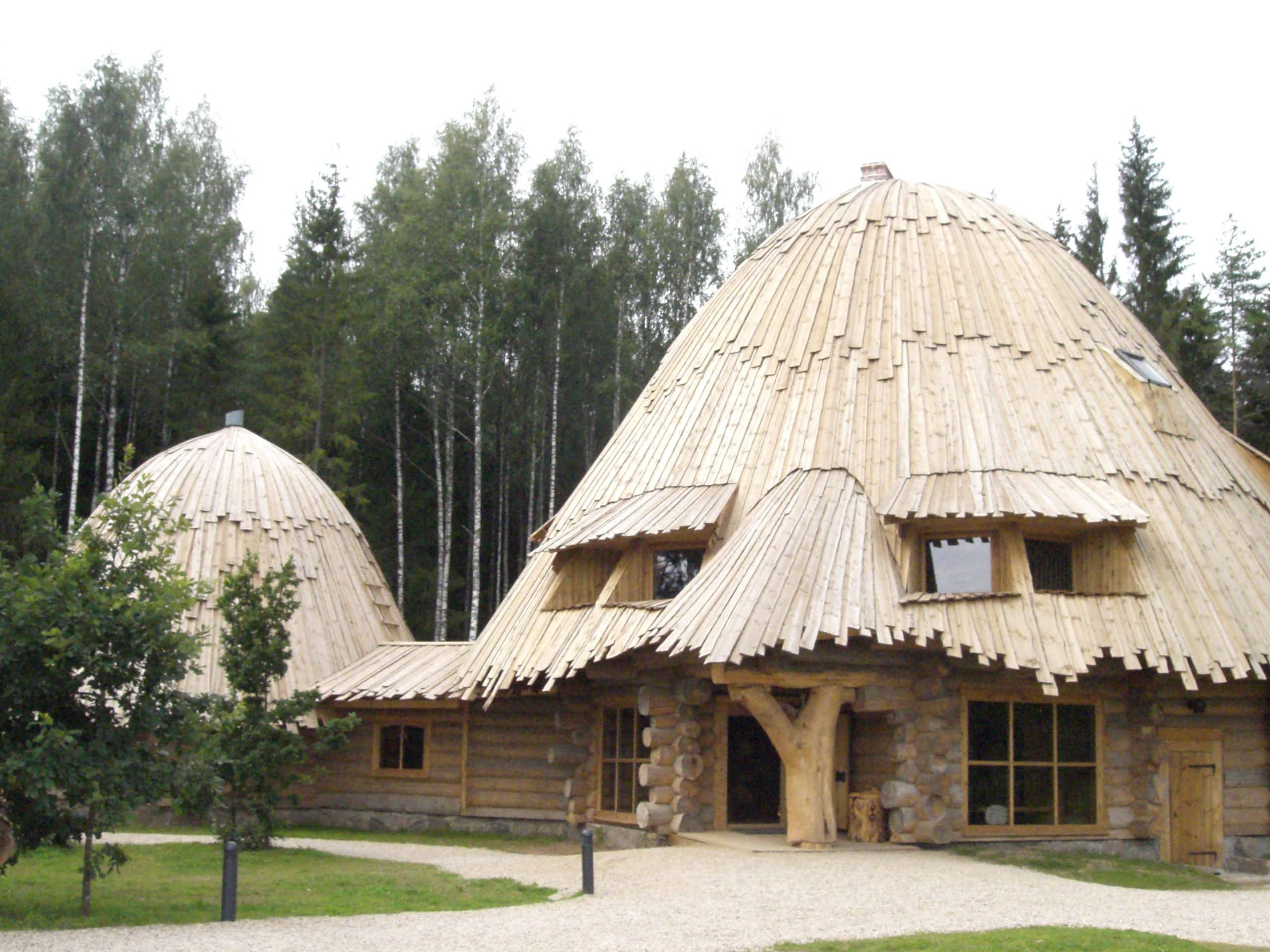 The Pokuhall in Pokuland, Urvaste municipality, Võru County, Estonia